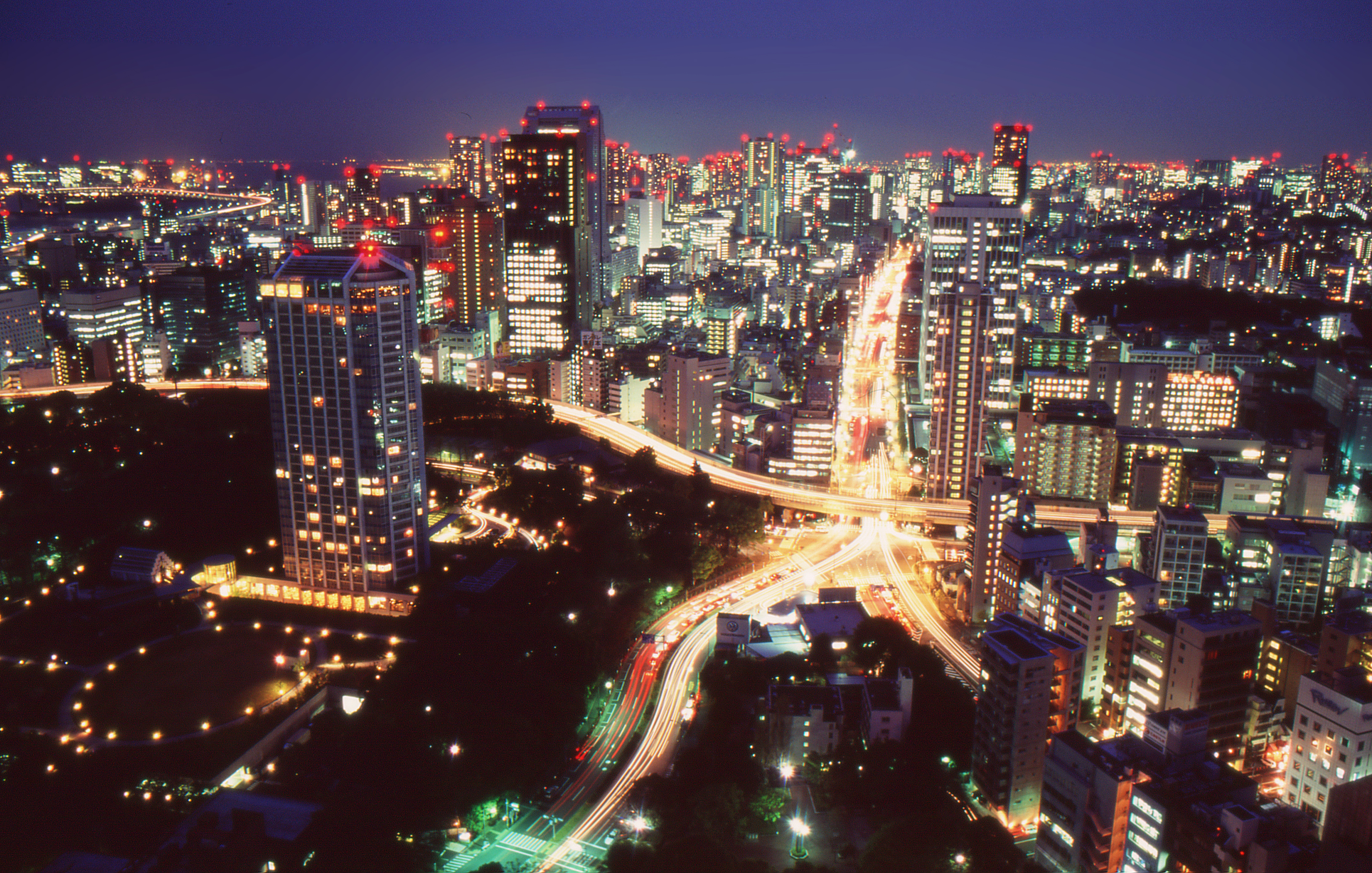 Tokyo streets by night shot from Tokyo Tower.